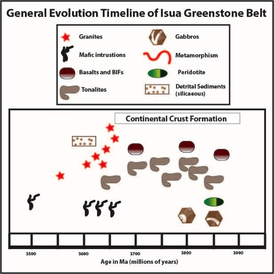 This is a cartoon image of the types of rocks that were formed and when during the evolution of the Isua Greenstone Belt.